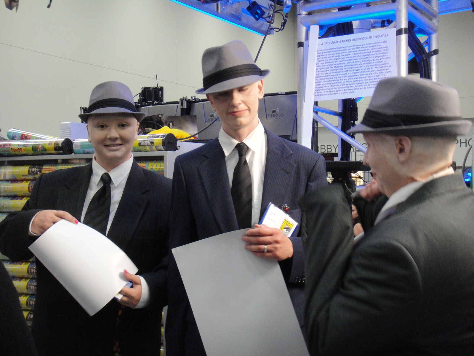 San Diego Comic-Con 2011 - Observers at the Fox booth